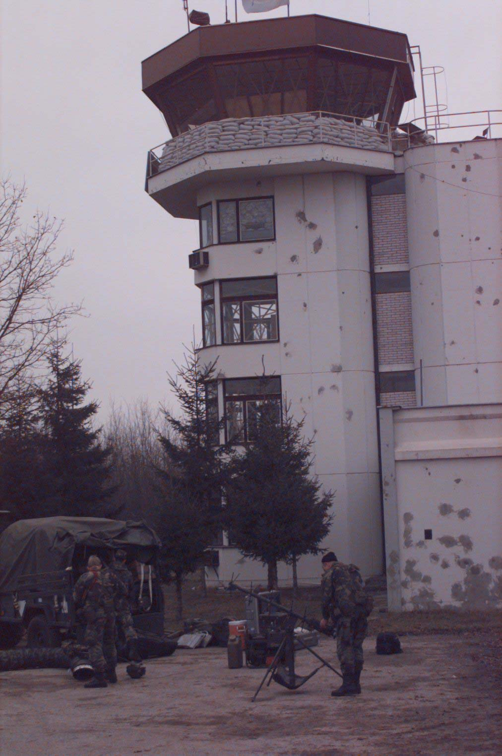 U.S. Air Force members of the 4100 Group Provisional, Tanker Airlift Control Element, set up a satellite communication system at the base of the control tower of the airport in Tuzla, Bosnia and Herzegovina, on Dec. 11, 1995. The airmen, as part of the NATO Enabling Force of Operation Joint Endeavor, are setting up operations to bring airfield up to a 24 hour capability. Enabling forces are moving into the Croatia, Bosnia and Herzegovina, and Slovenia theaters of operation to prepare entry points for the main Implementation Force. The satellite communication system will be used by the operations personnel to keep track of incoming and outgoing aircraft.